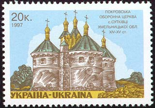 Stamp of Ukraine